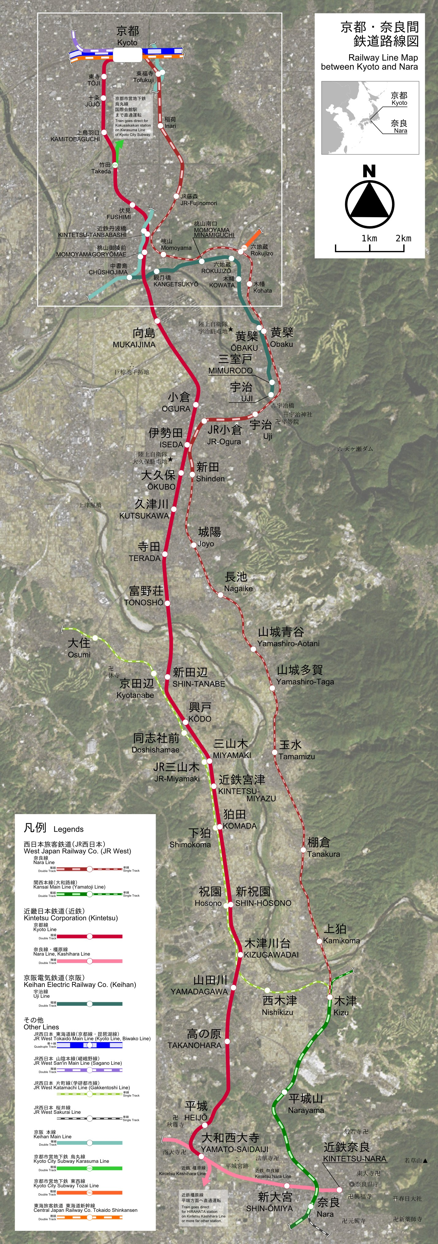 This is the Railway Line Map between Kyoto and Nara in Japan. This is the raster image version.